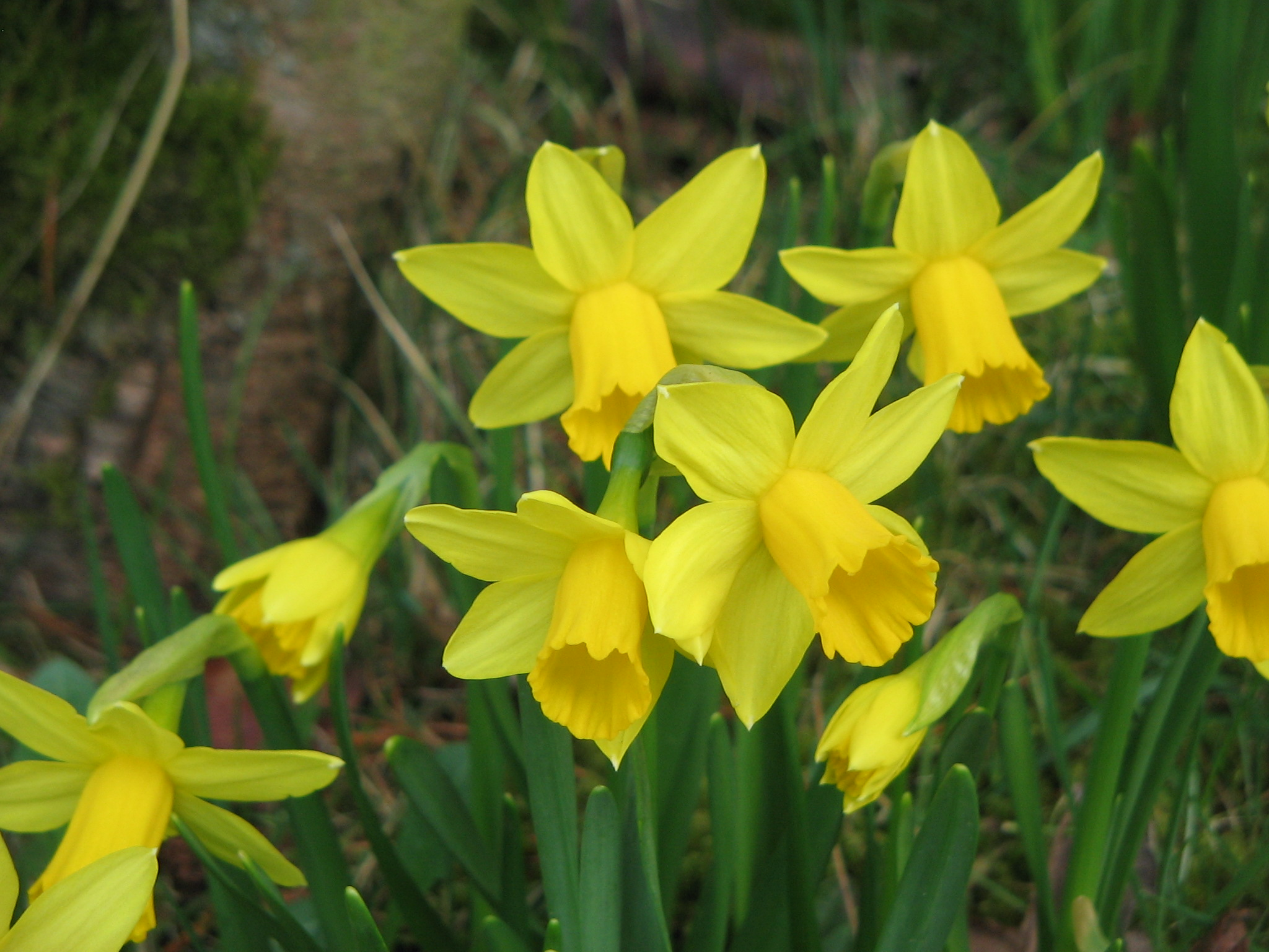 Narcissus cyclamineus 'Tête-à-Tête' - close-up